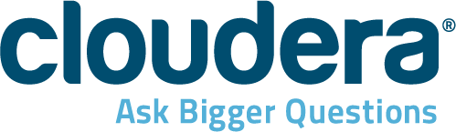 Cloudera, Inc. logo with tagline